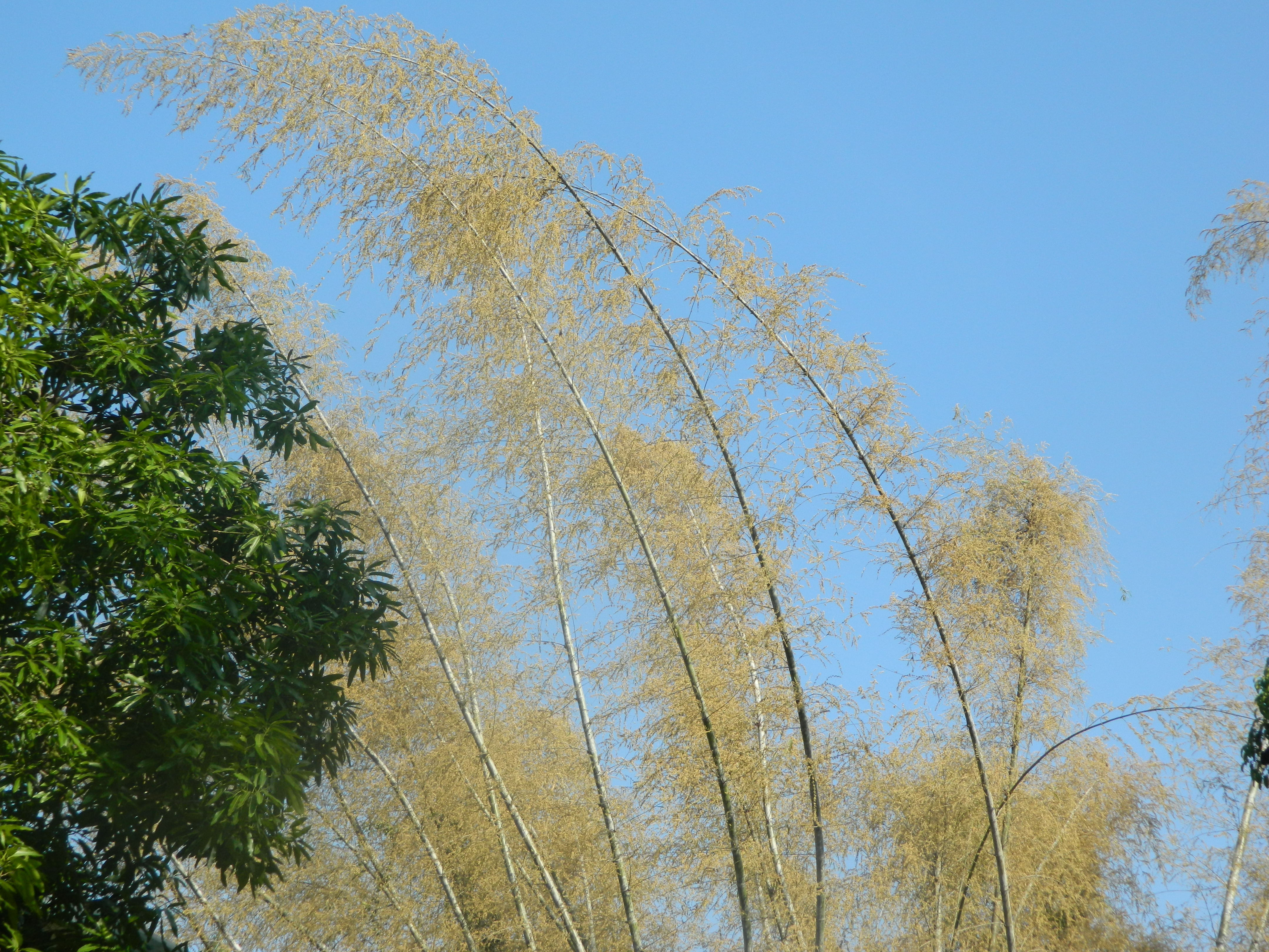 മുളപൂത്തത്